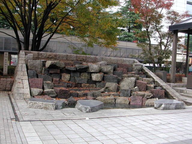 Nagaoka Castle Honmaru ruins at Nagaoka Station Ōte exit